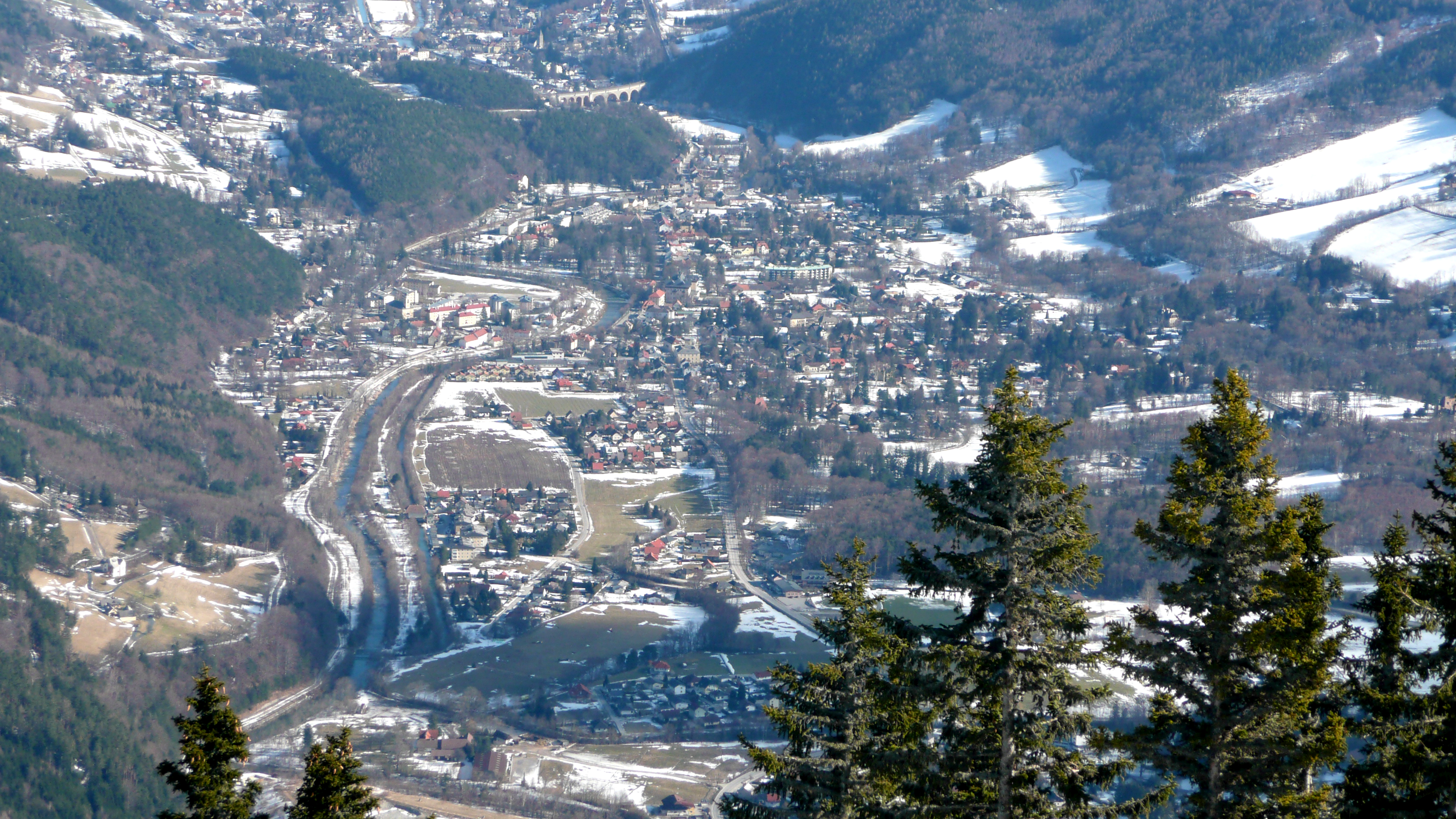 Hirschwang / Reichenau - View from Raxalpe